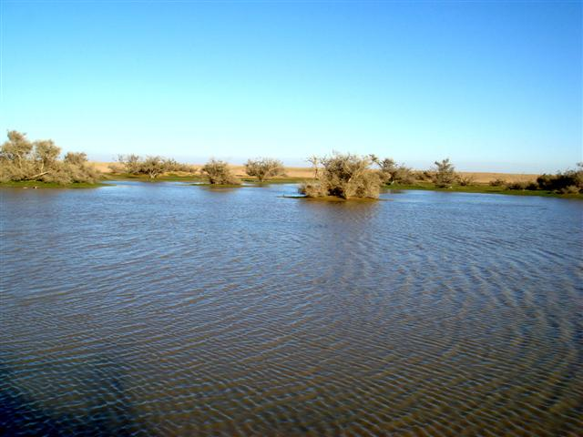 During Winter, it is rainy. A lot of families are going for picnics.